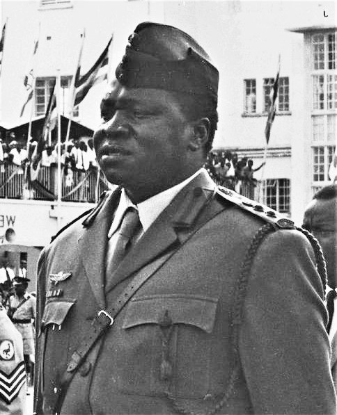 IDI AMIN AT ENTEBBE AIRPORT.